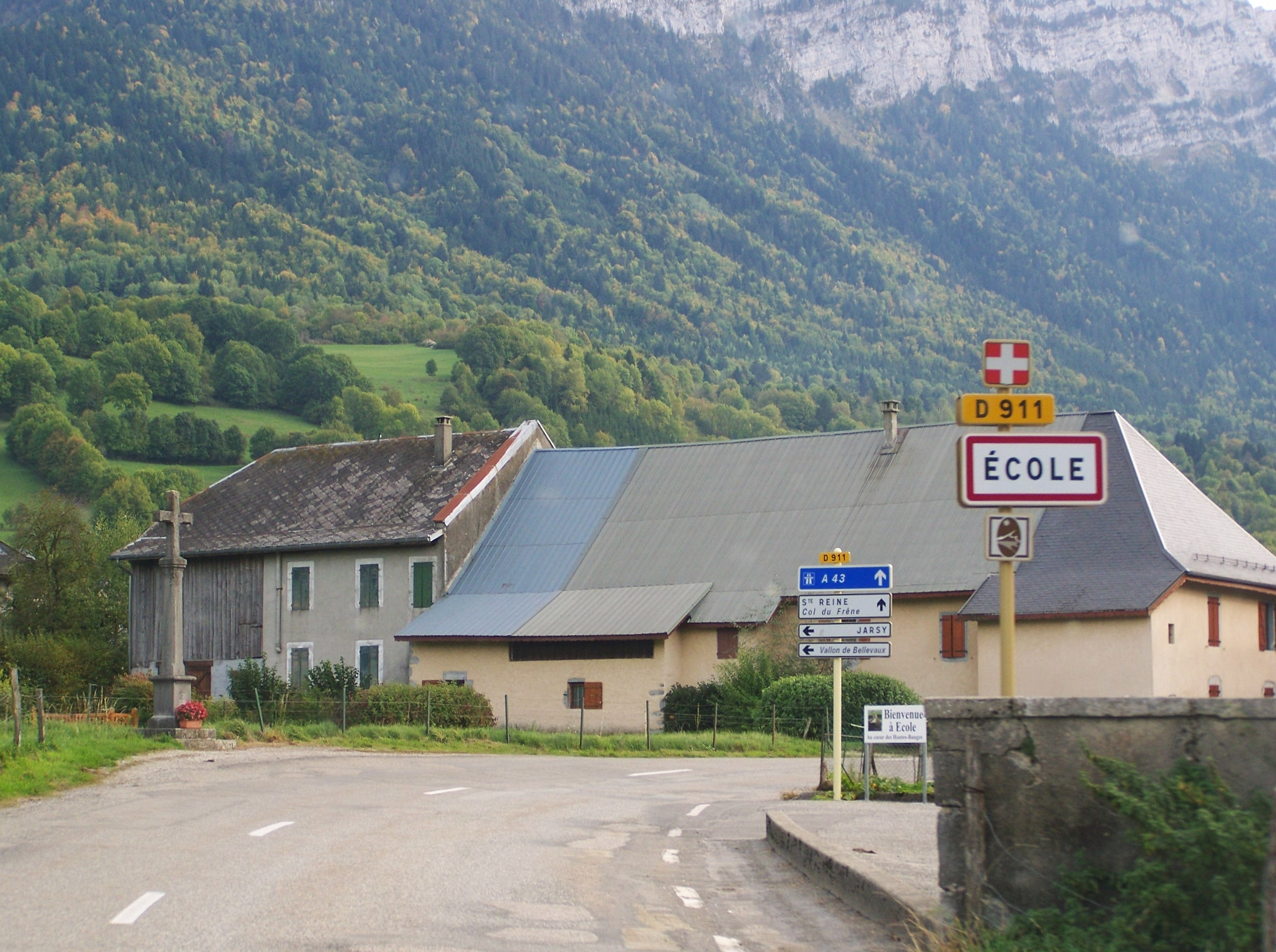 Sign welcoming visitors to the French commune and village of École in Savoie.